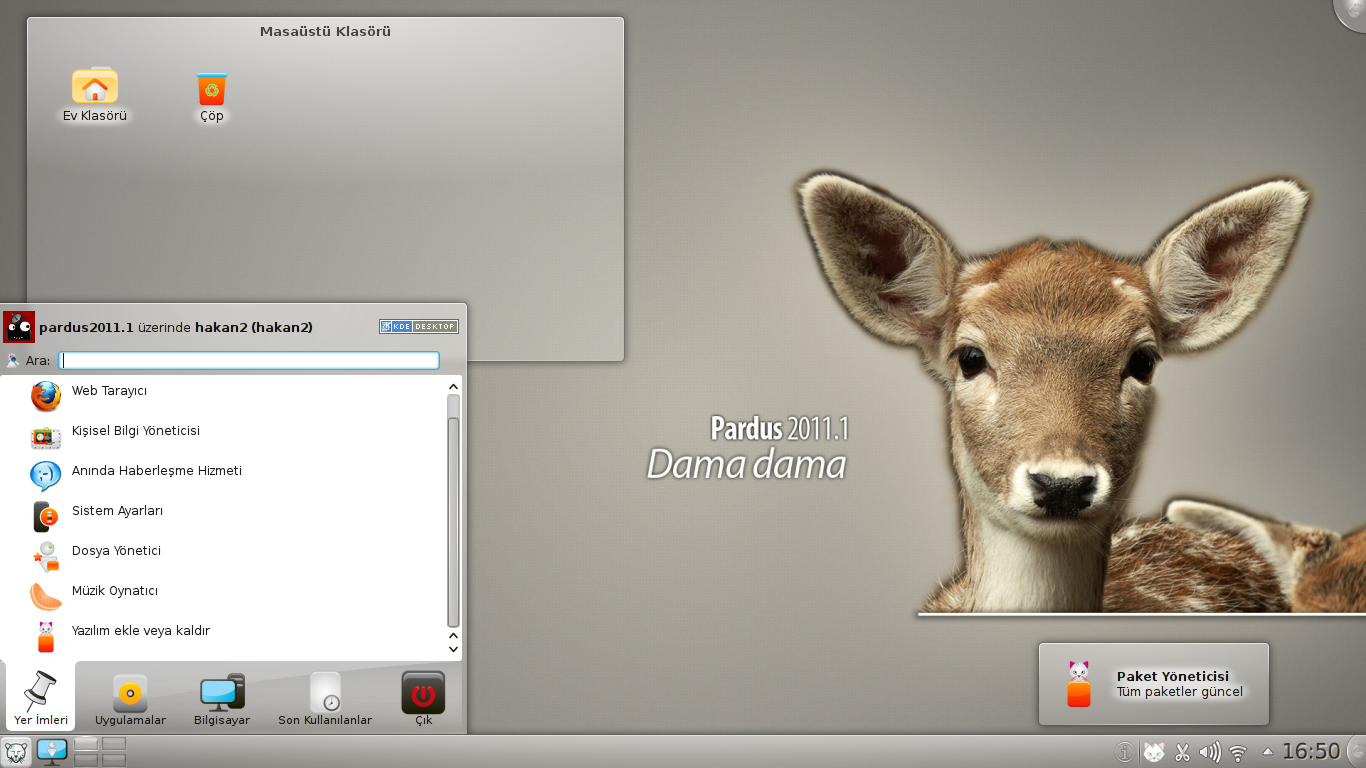 Pardus 2011.1 Dama dama screenshot